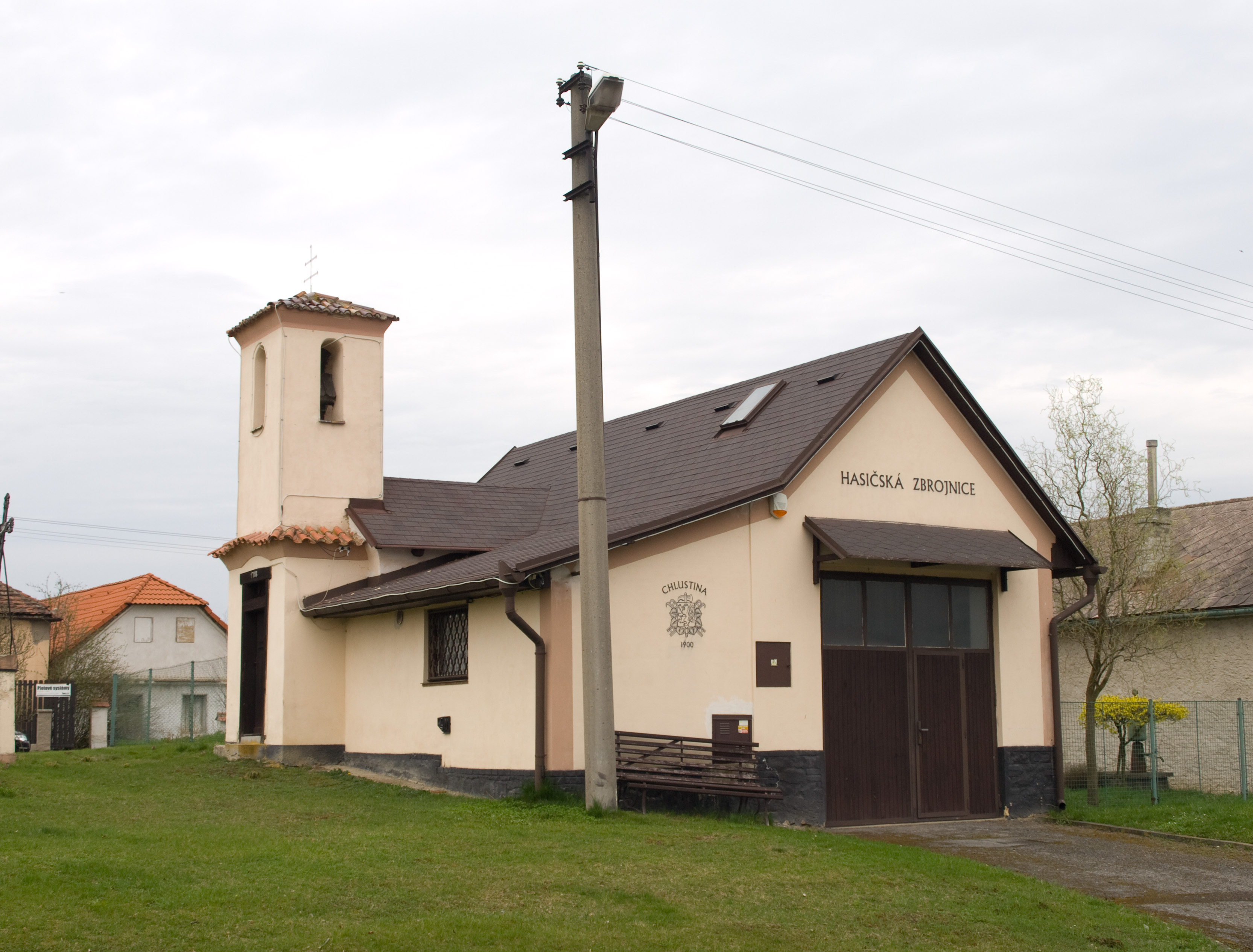 Hasičská zbrojnice, Chlustina, okres Beroun, Středočeský kraj, Česká republika